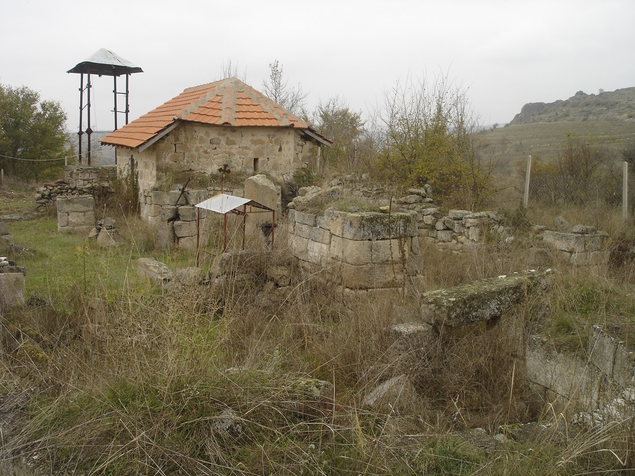 Church of St. John the Baptist in Konjuh